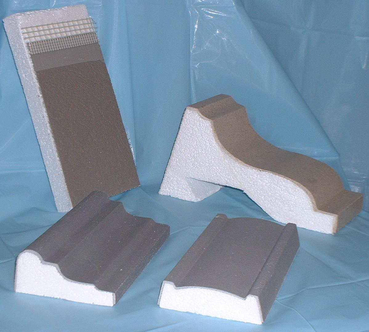 acrylic revetment or laying.